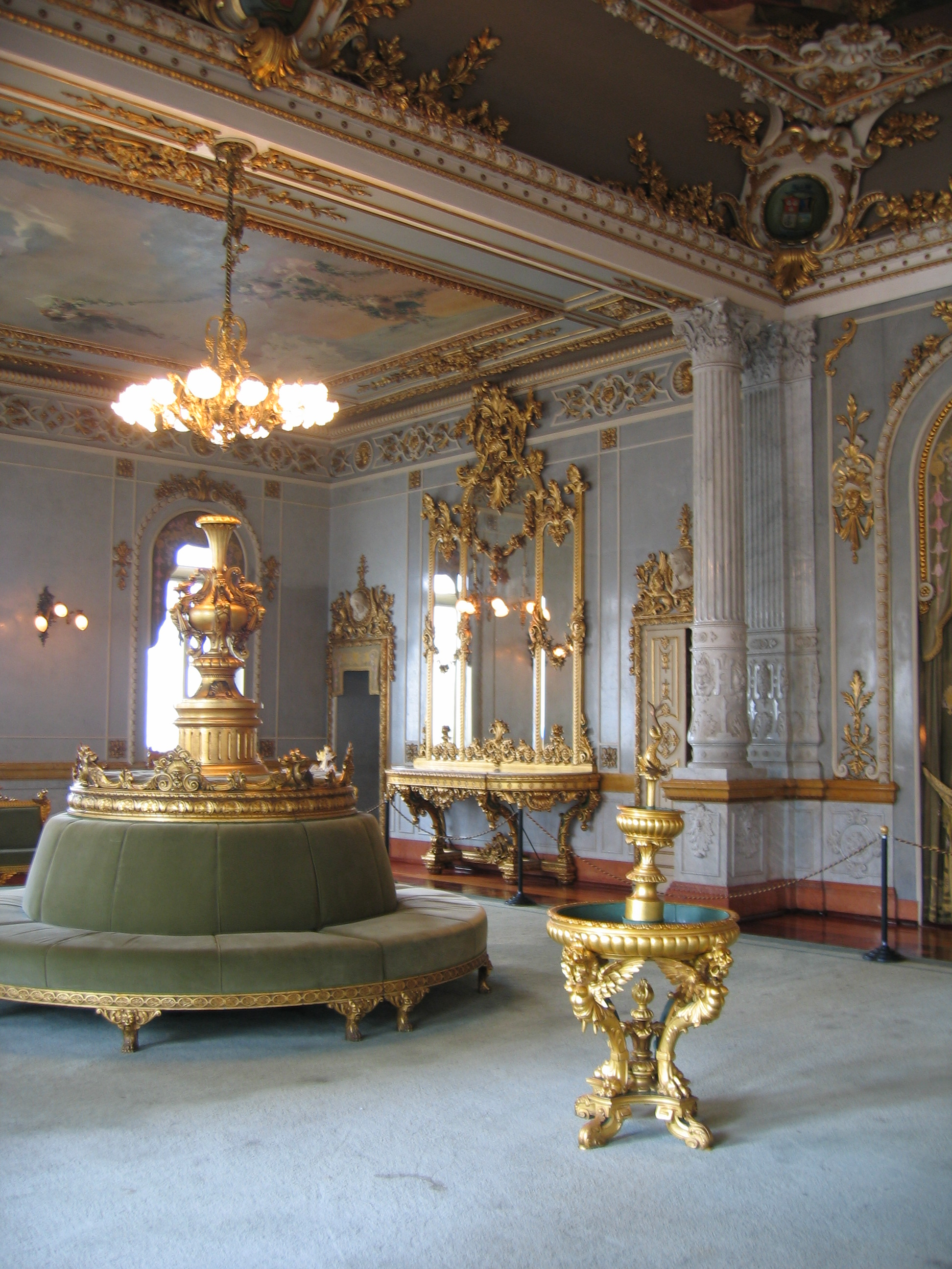 The inside of the Teatro National de Costa Rica, the Costa Rican national theatre.